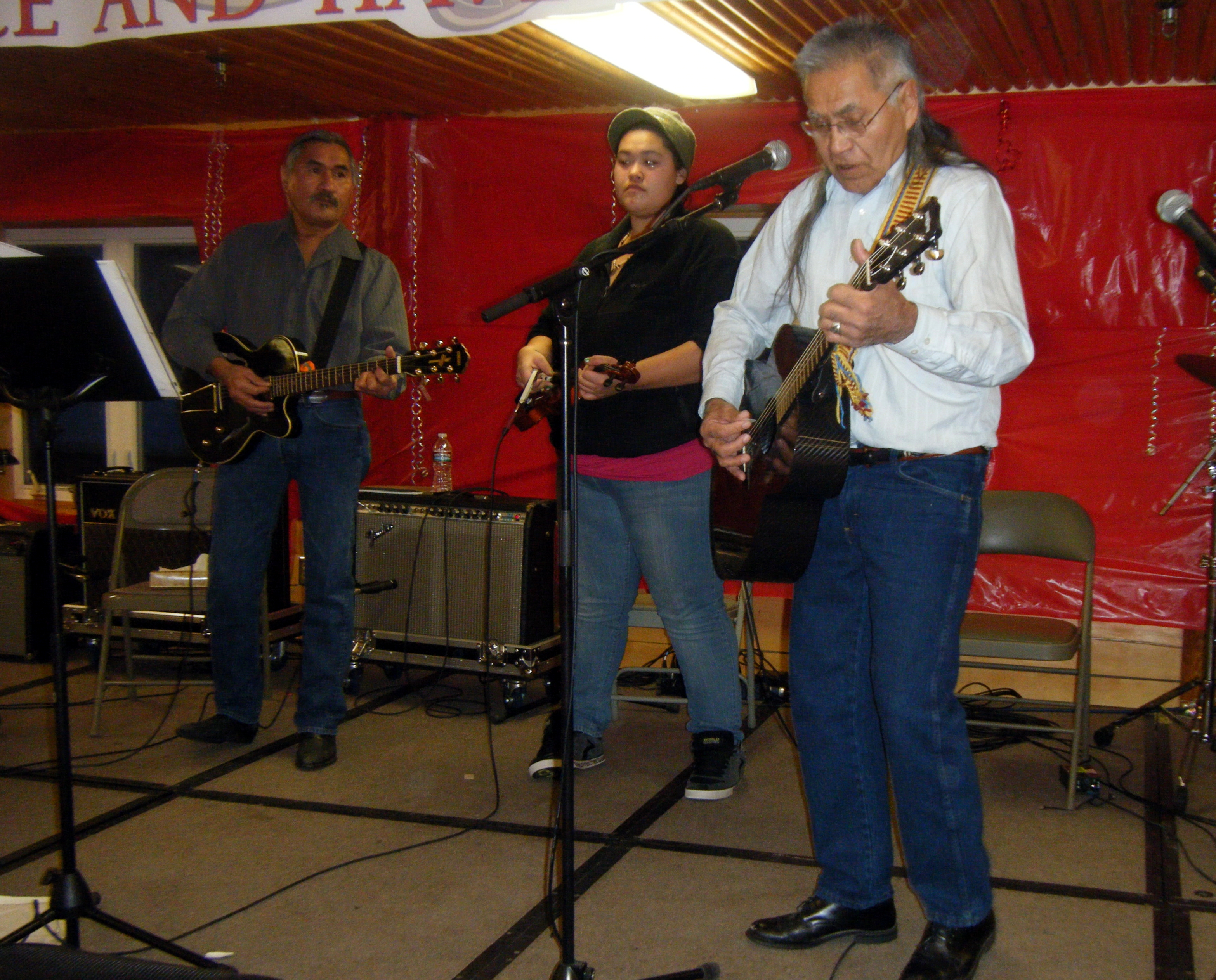 Trio of musicians playing together at the Athabascan Fiddle Festival in November 2011. The lineup you see, where two guitarists back the fiddler, is common for this type of music; sometimes a bassist will replace one of the guitarists. The guitarist at left is Sam Pitka (1954–2017). I've long since forgotten who the other two persons were.